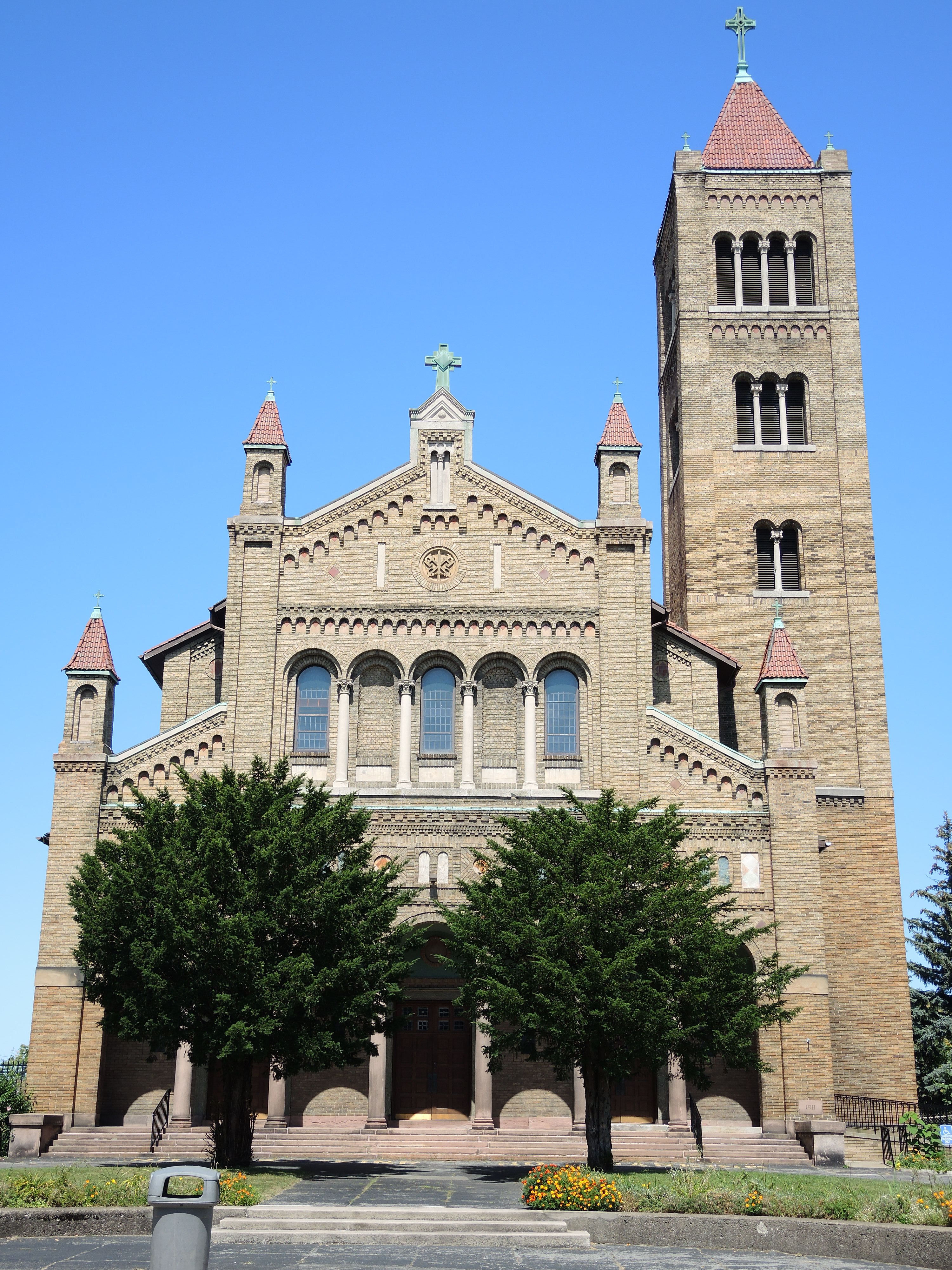 Front view of the Church of Ss. Peter and Paul in Rochester, New York